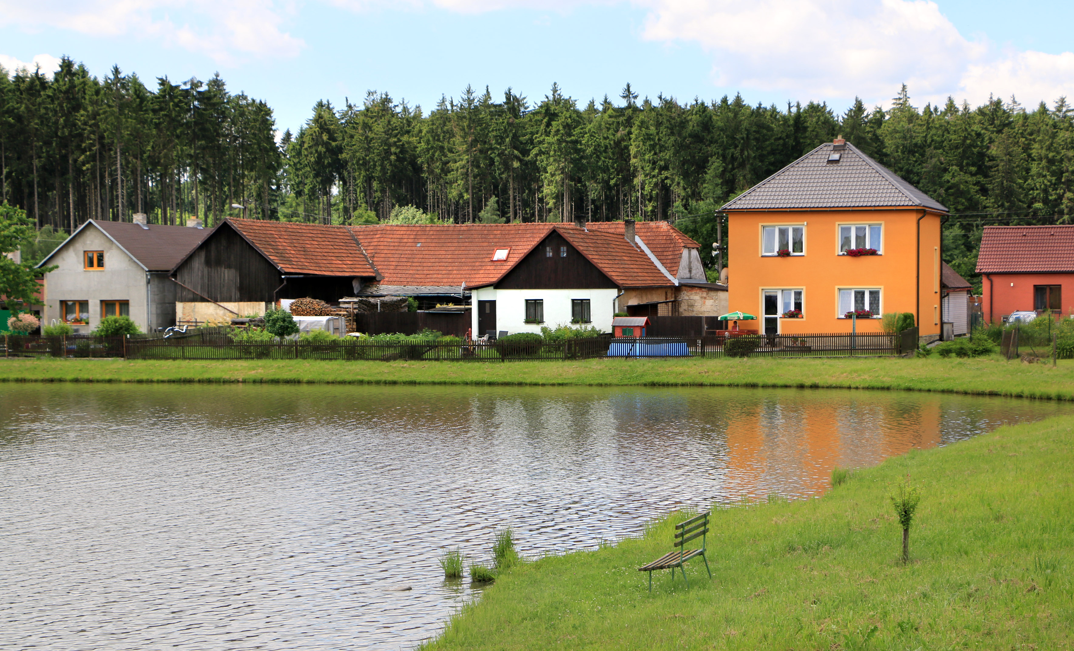 Hladovský pond in Hladov, Czech Republic.